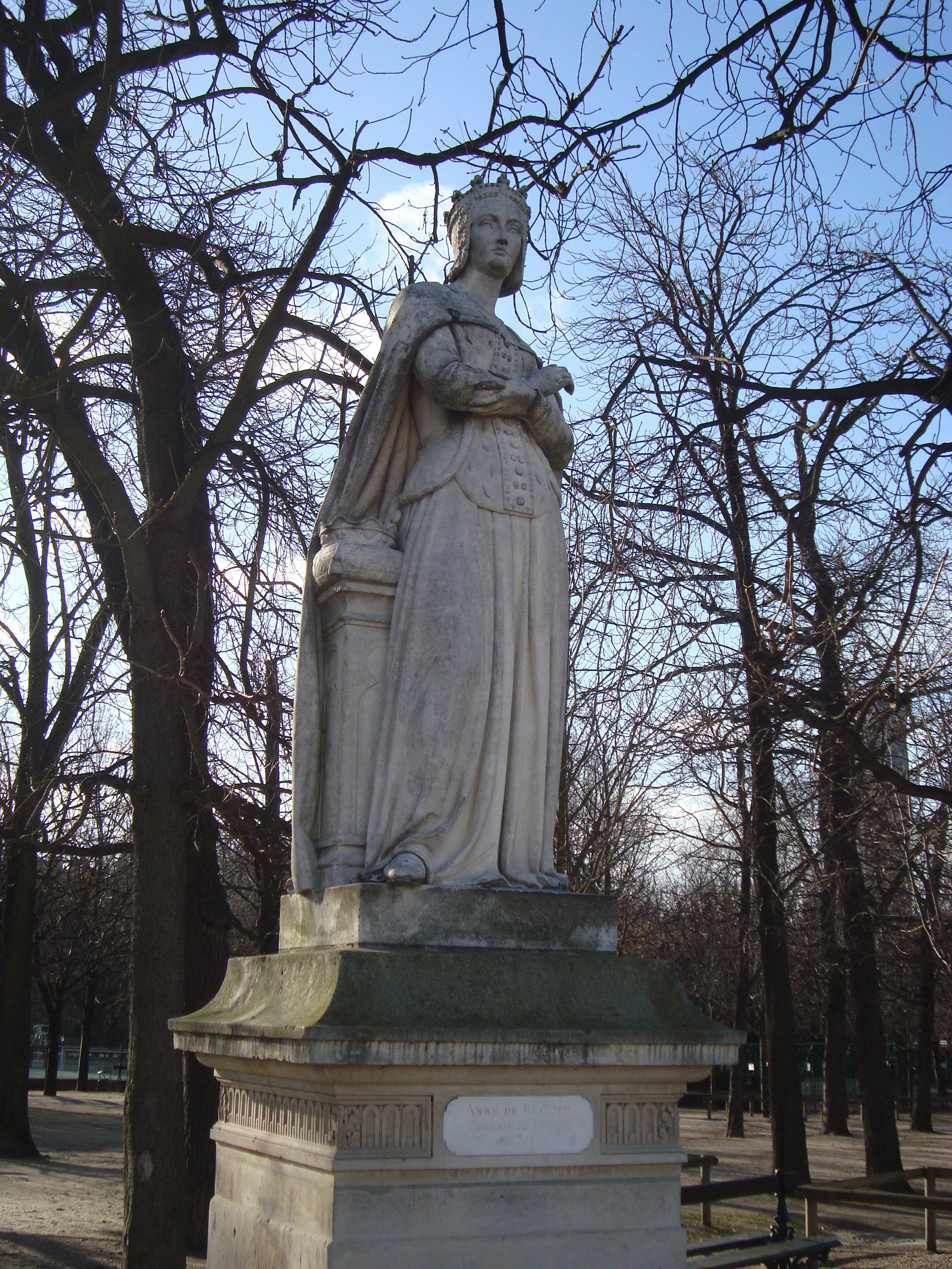 Statue of Anne de Beaujeu by Jacques-Édouard Gatteaux in the Jardin du Luxembourg, Paris